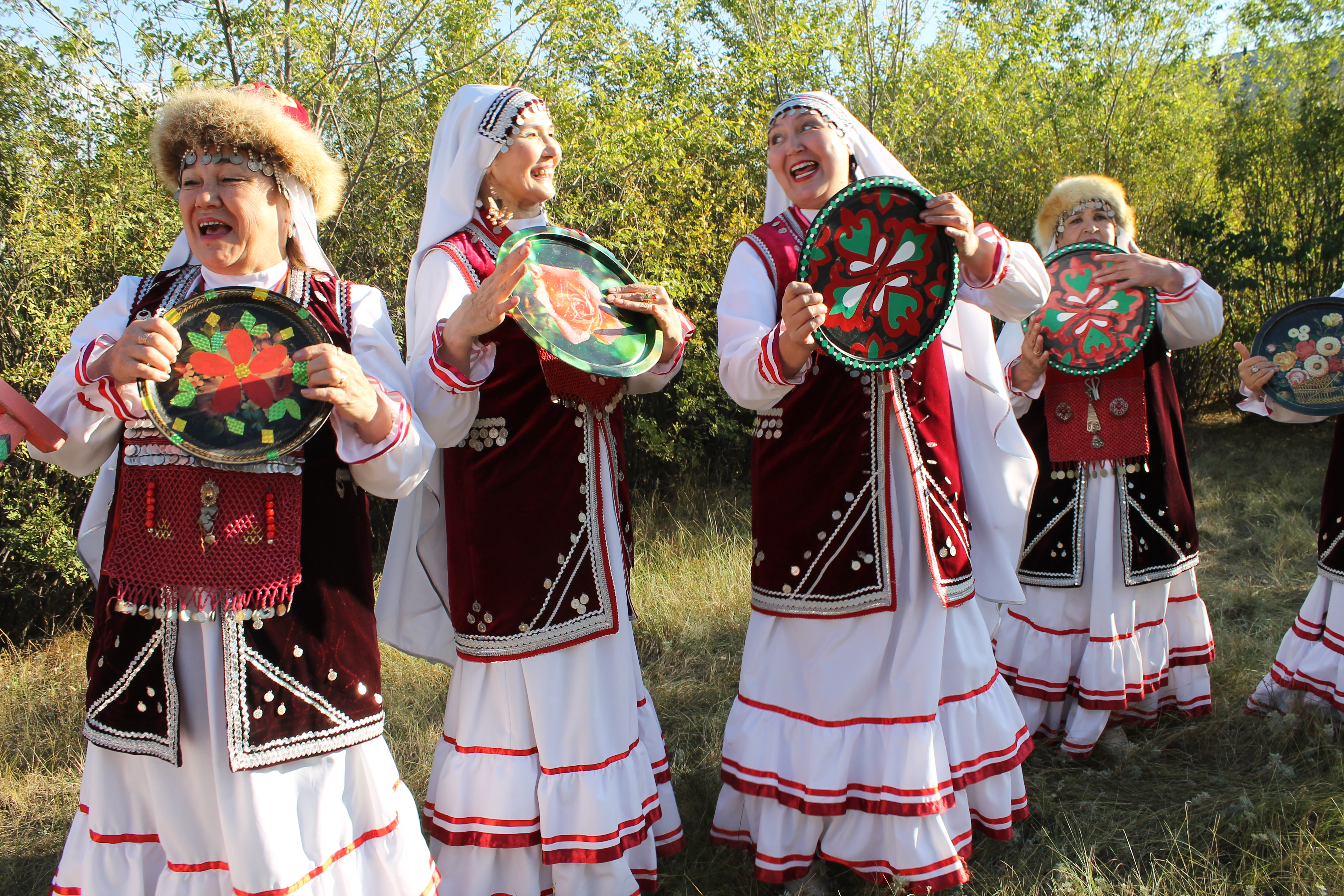 This photo has been taken in the country: Russia